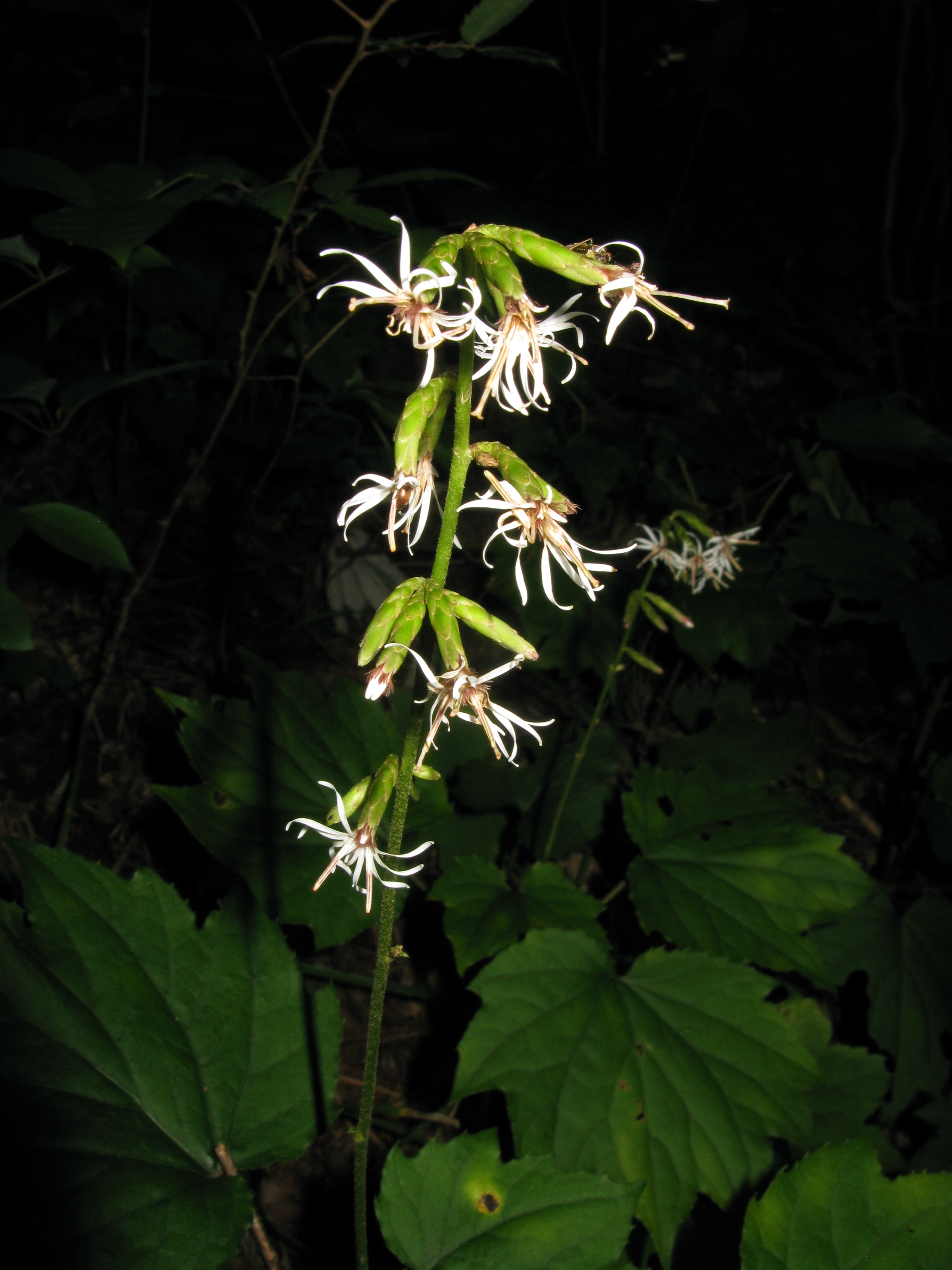 Ainsliaea acerifolia var. subapoda, Nakadori area, Fukushima pref., Japan